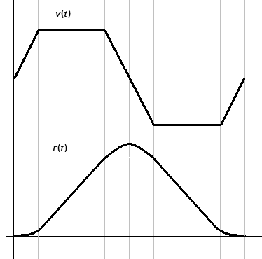 Twin paradox: diagram for velocity and position, this is a common diagram used for solving de twin paradox for a trip of five parts: accelerated departure, departure at constant velocity, decceleration, aproximation at constant velocitity, landing.